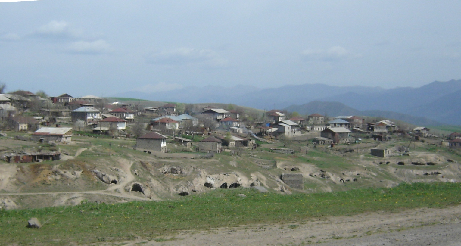 Caves under town of Tegh, Armenia, along M12 road to Karabagh, east of Goris.